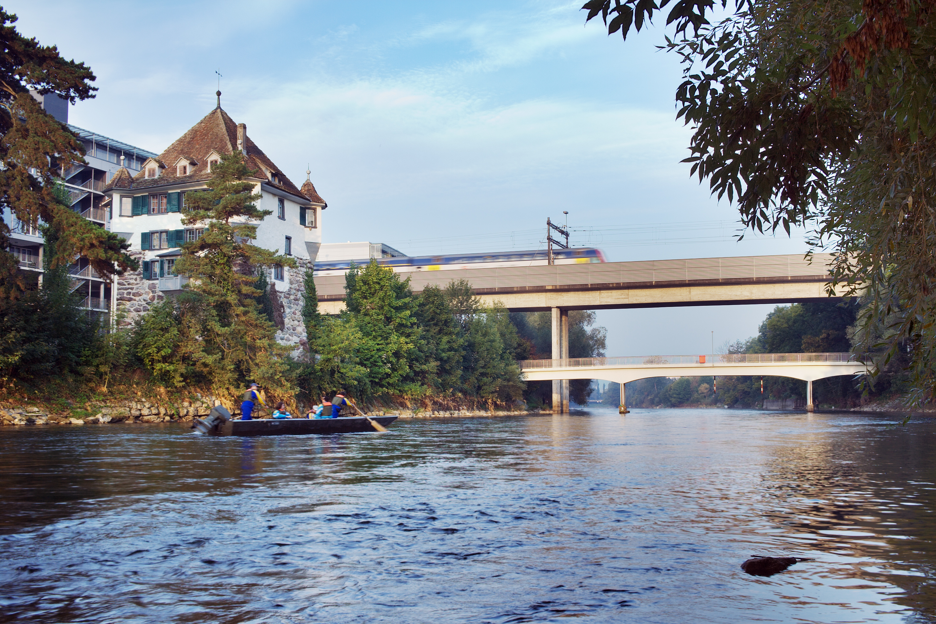 Barbican in Zurich built between 1250 and 1300, SwitzerlandThe tower stands close to a bridge of the main railroad line Zurich-St Gall.Picture shot with a tripod standing in the river at sunrise, shutter release with a remote. ISO 100, F/8, 1/25 s